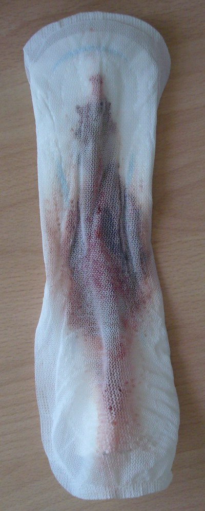 Used sanitary napkin